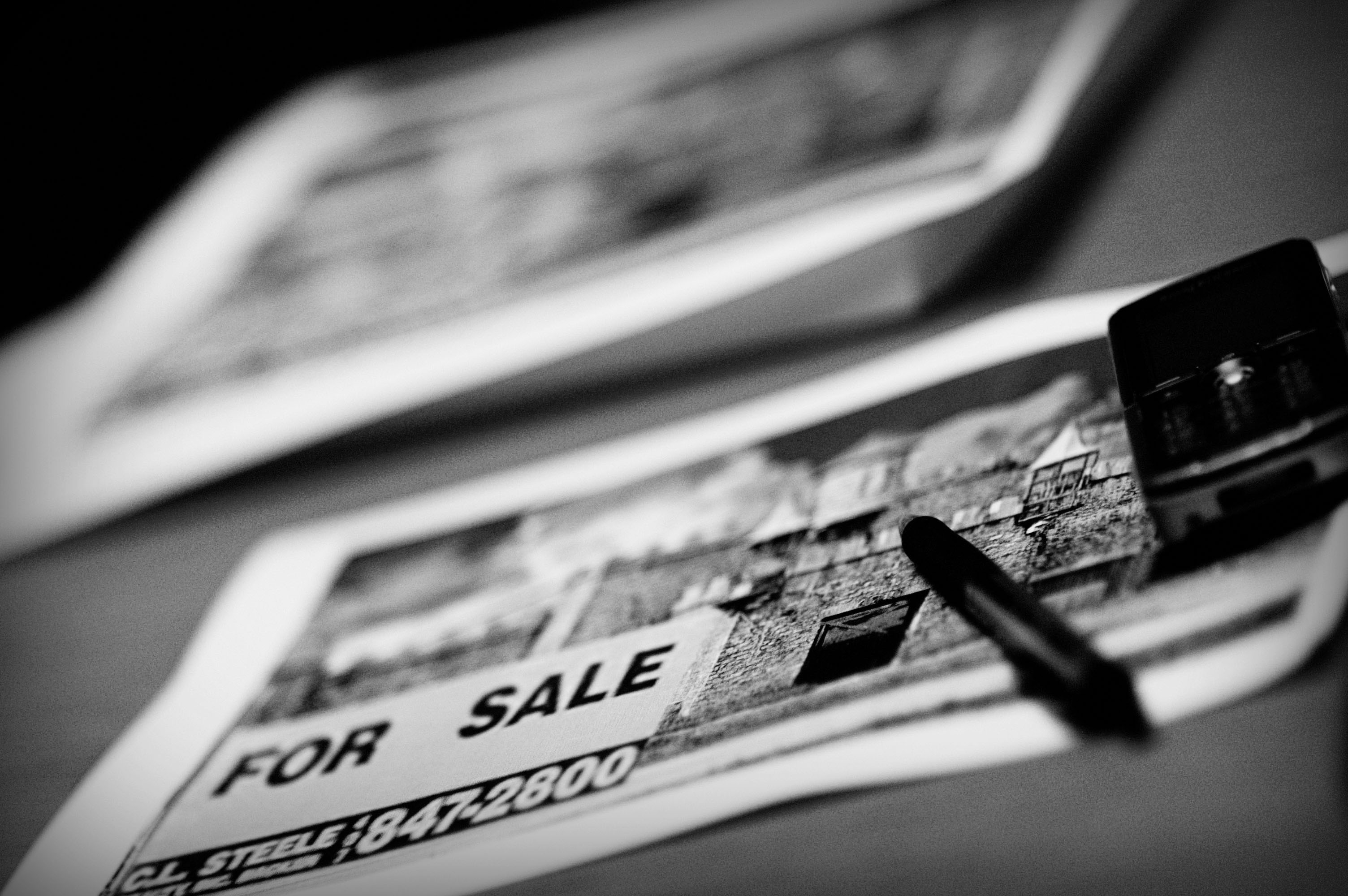 "FOR SALE" - a classified ad in a newspaper.